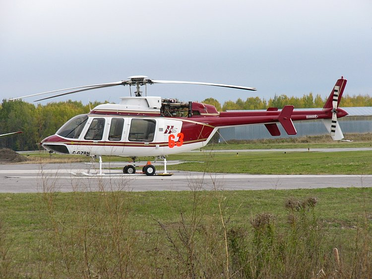 I took this photo of a Bell 407 (C-GZRN) just returned from fire fighting contract with Ontario Ministry of Natural Resources at carp Airport on 17 October 2007.